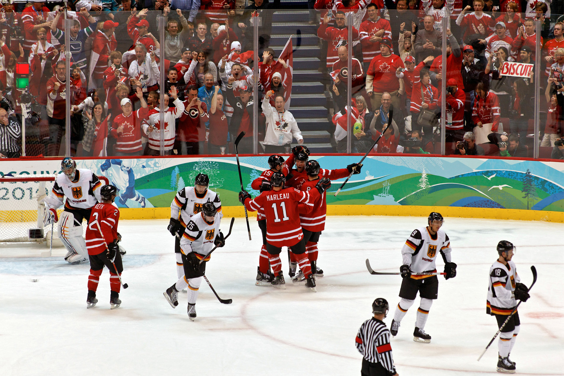 Canadian players (from left to right) Duncan Keith, Patrick Marleau, Dany Heatley, Joe Thornton and Drew Doughty celebrate a goal against Germany at the 2010 Winter Olympics in Vancouver.